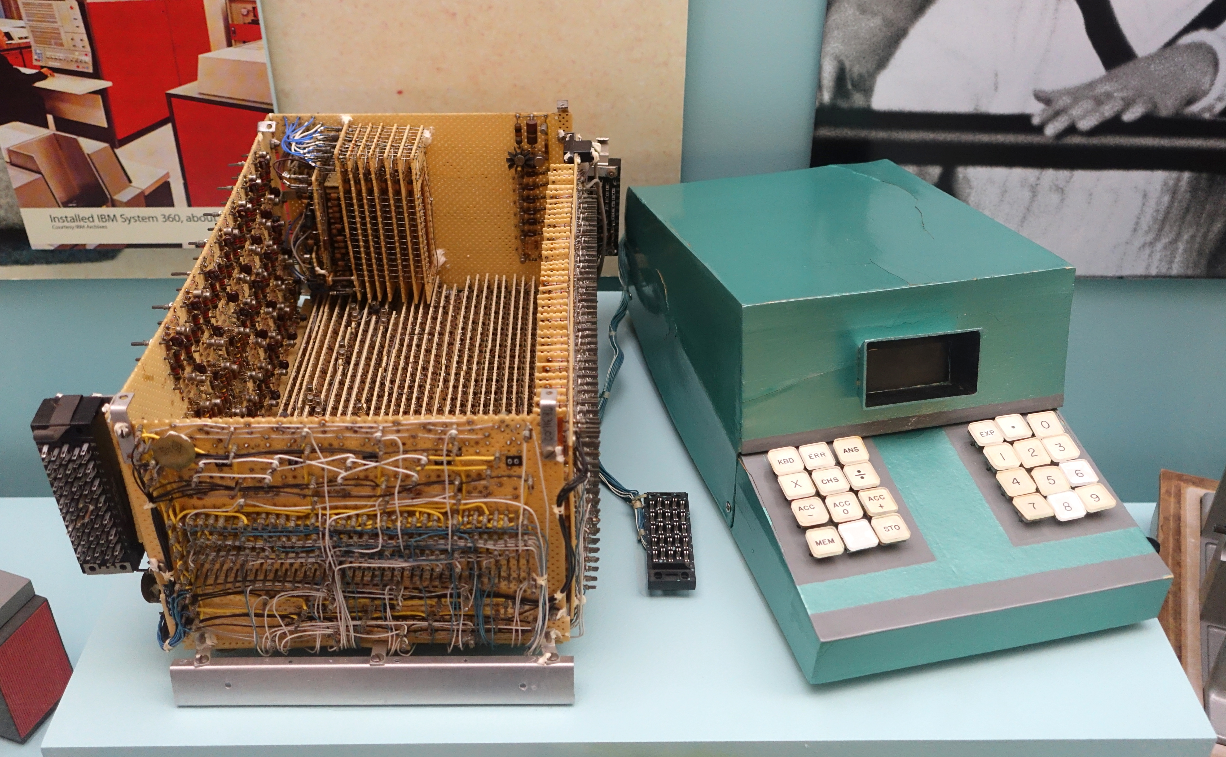 Exhibit in the National Museum of American History, Washington, DC, USA.